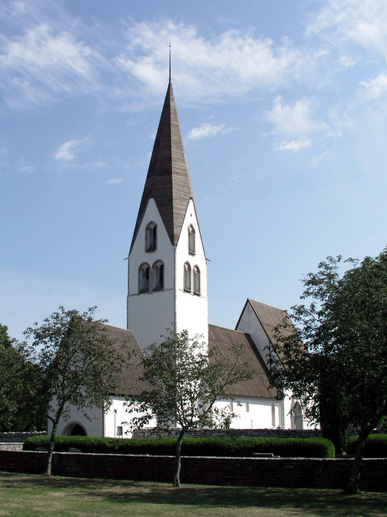 Garda (Garde) kyrka / Garda (Garde) church is situated at Garde, Gotland, Sweden